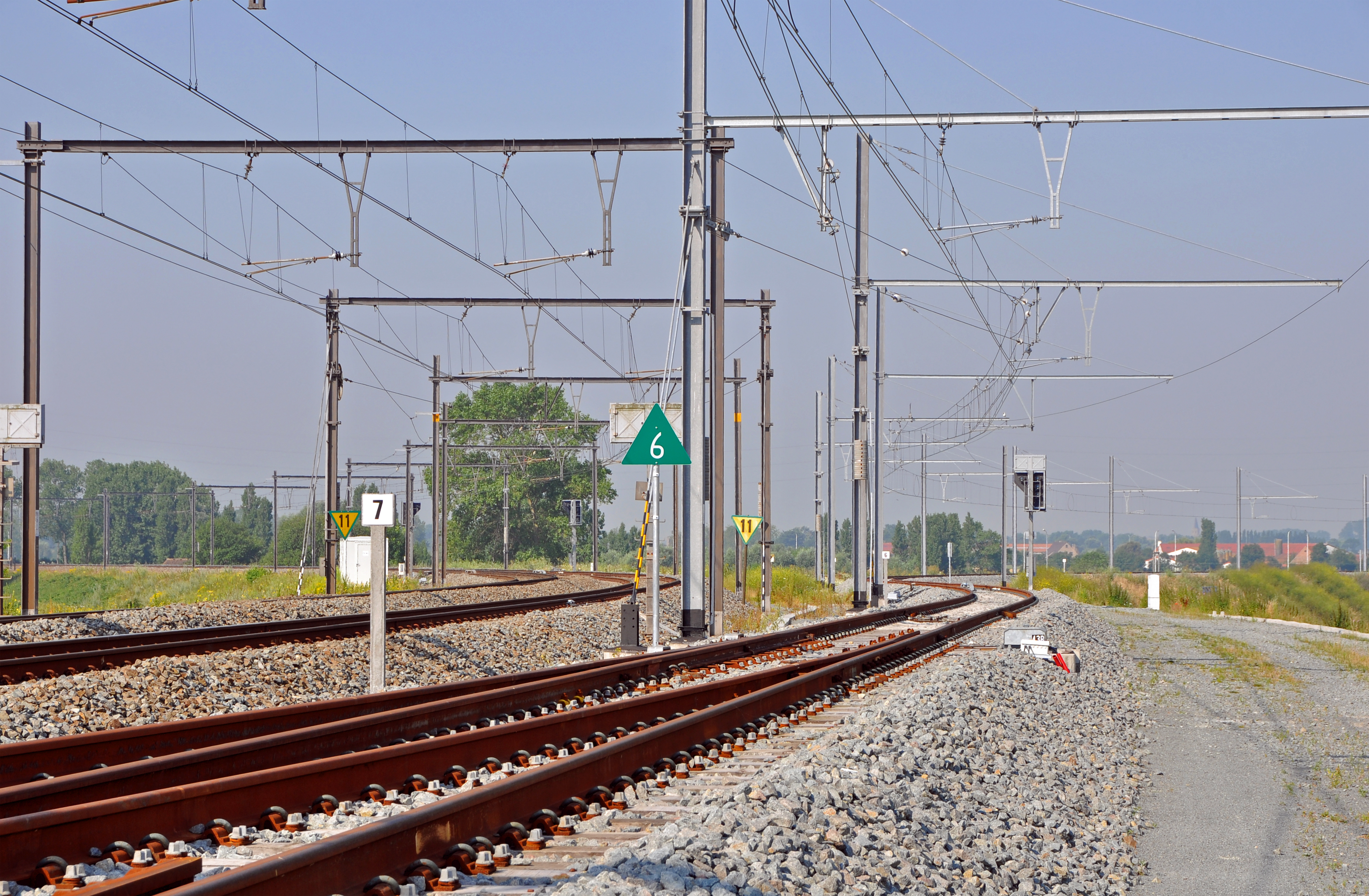 Dudzele (Bruges, Belgium): railway line 51B/1 near the "Boudewijnkanaal" junction. Left: railway line 51B from Bruges to Knokke. A second track of line 51B/1 will later be constructed at the right.